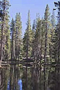 Photo of Bucks Lake Wilderness area, California, USA